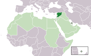 Map of Syria, Arab States.